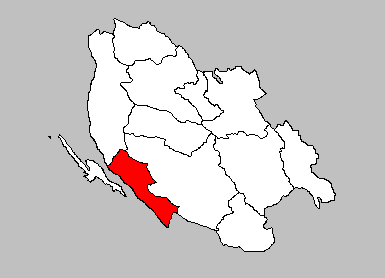 Location of municipality inside of Lika-Senj County